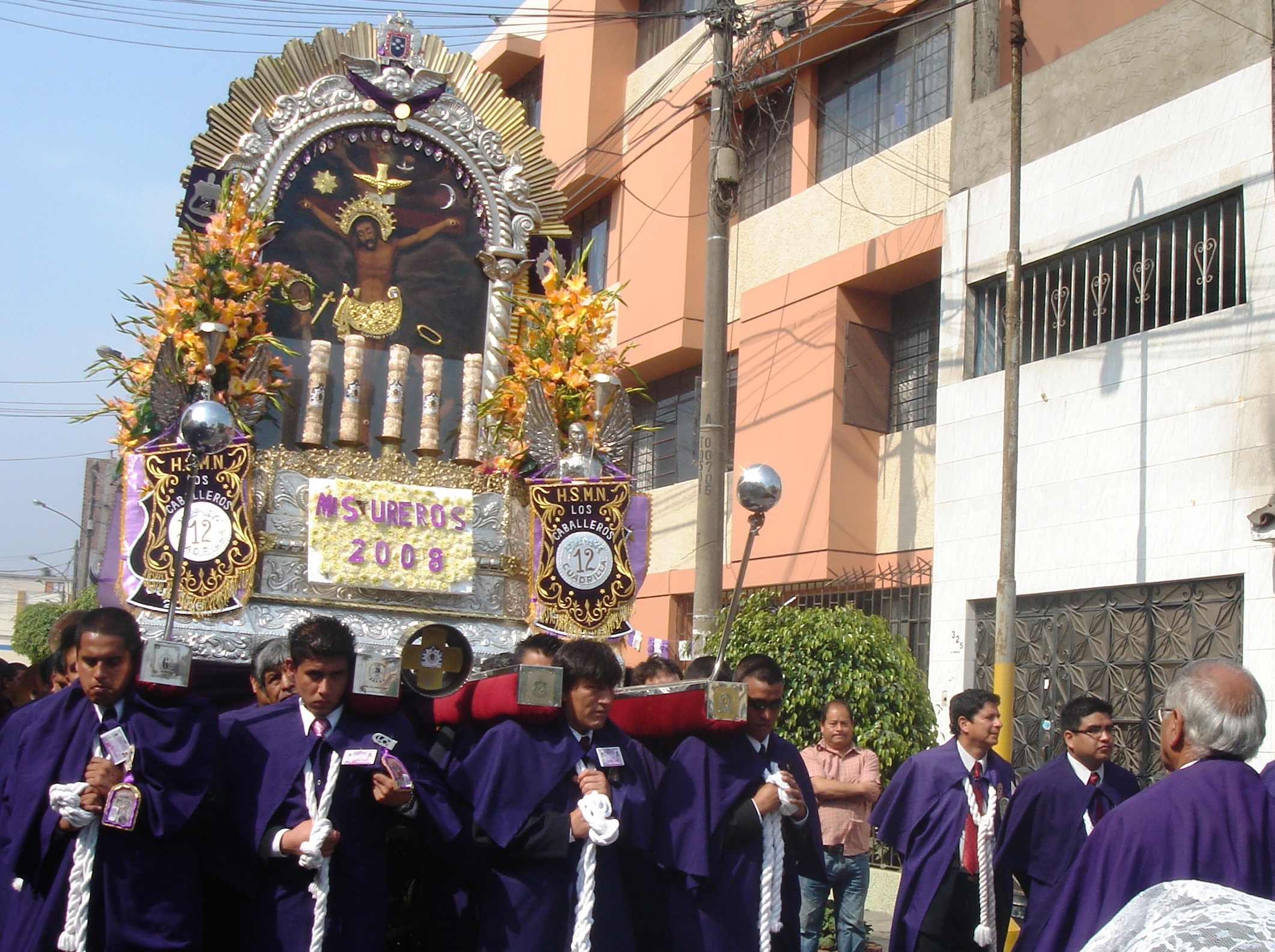 Lord of Miracles in Breña District (Lima-Peru).